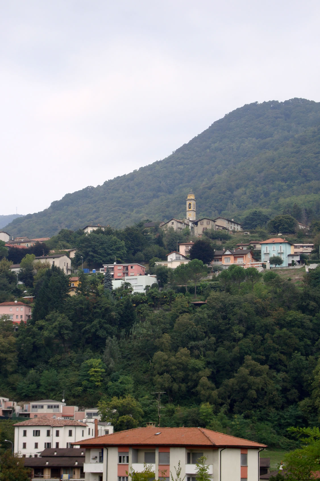 Valcolla village and church in Ticino, Switzerland